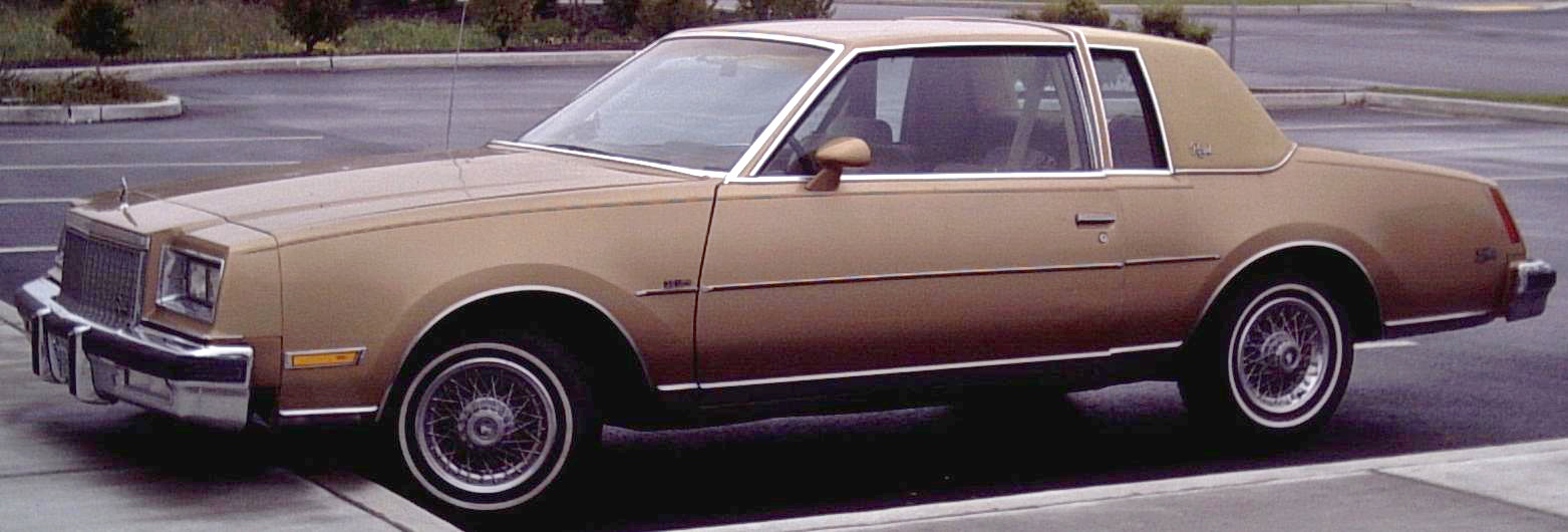 1980 Buick Regal Coupé